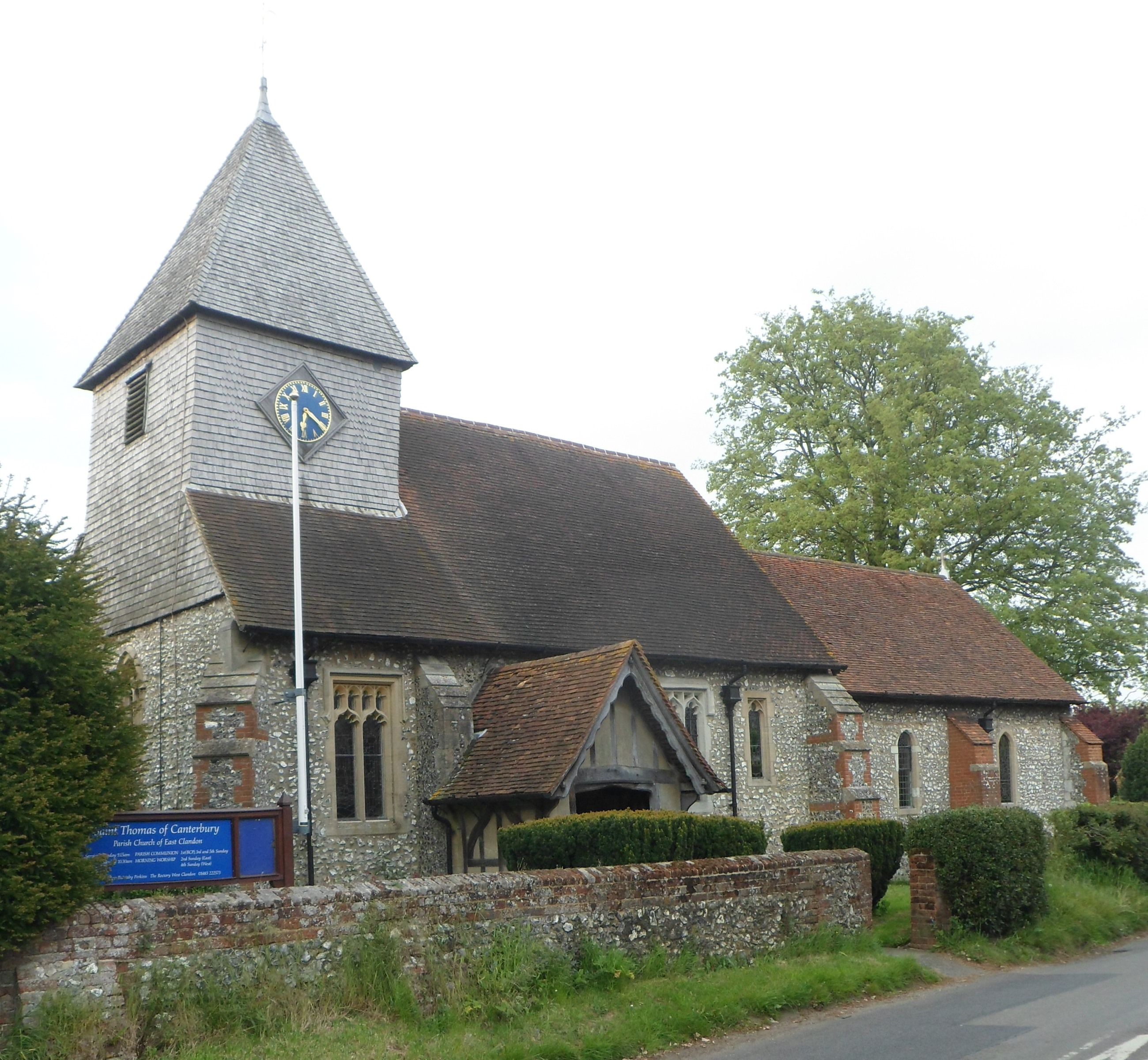 St Thomas of Canterbury's Church, The Street, East Clandon, Borough of Guildford, Surrey, England.